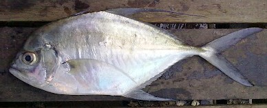 Ulua aurochs, from Malaysia